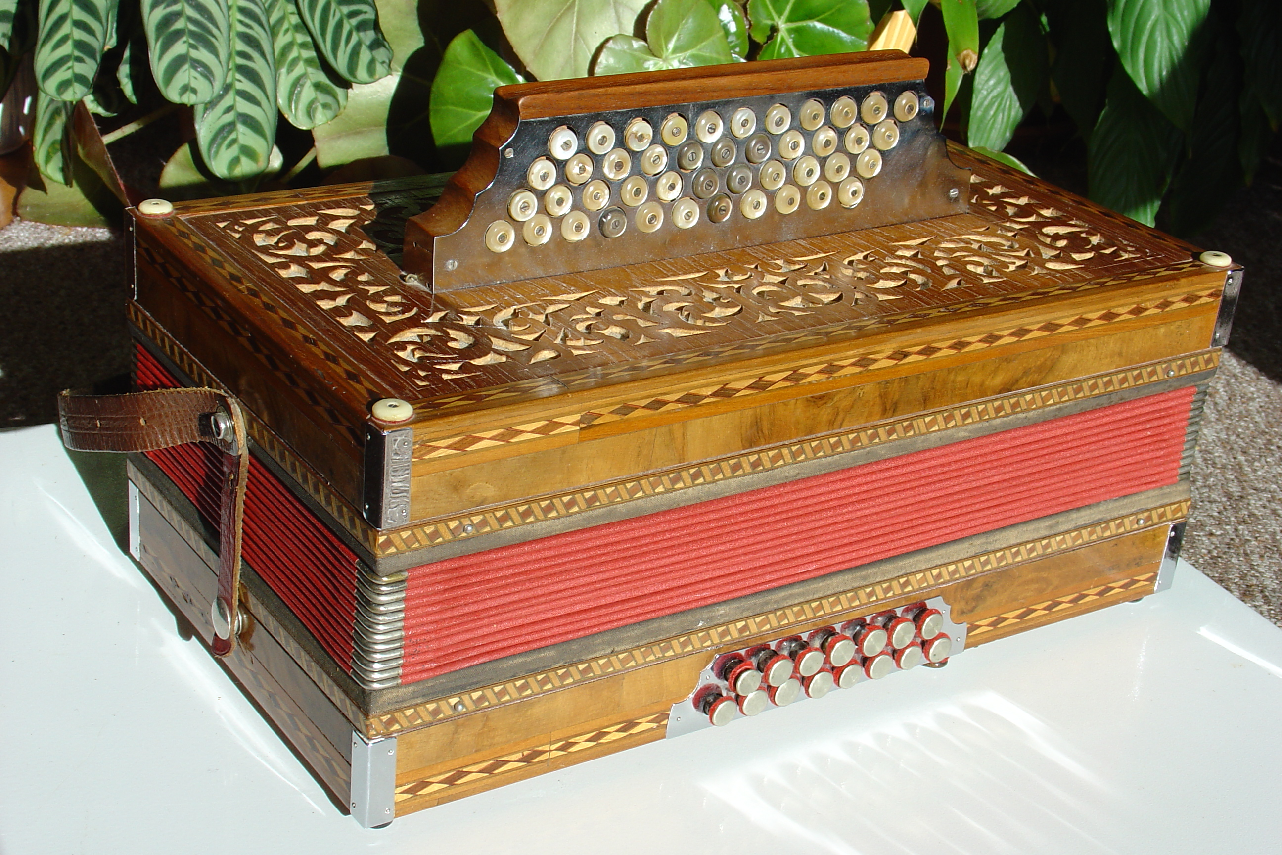 Old-Slovenian type of Diatonic Button Accordion with Four rows, made by Rudolf Bukovec, Kot pri Semicu, Slovenia